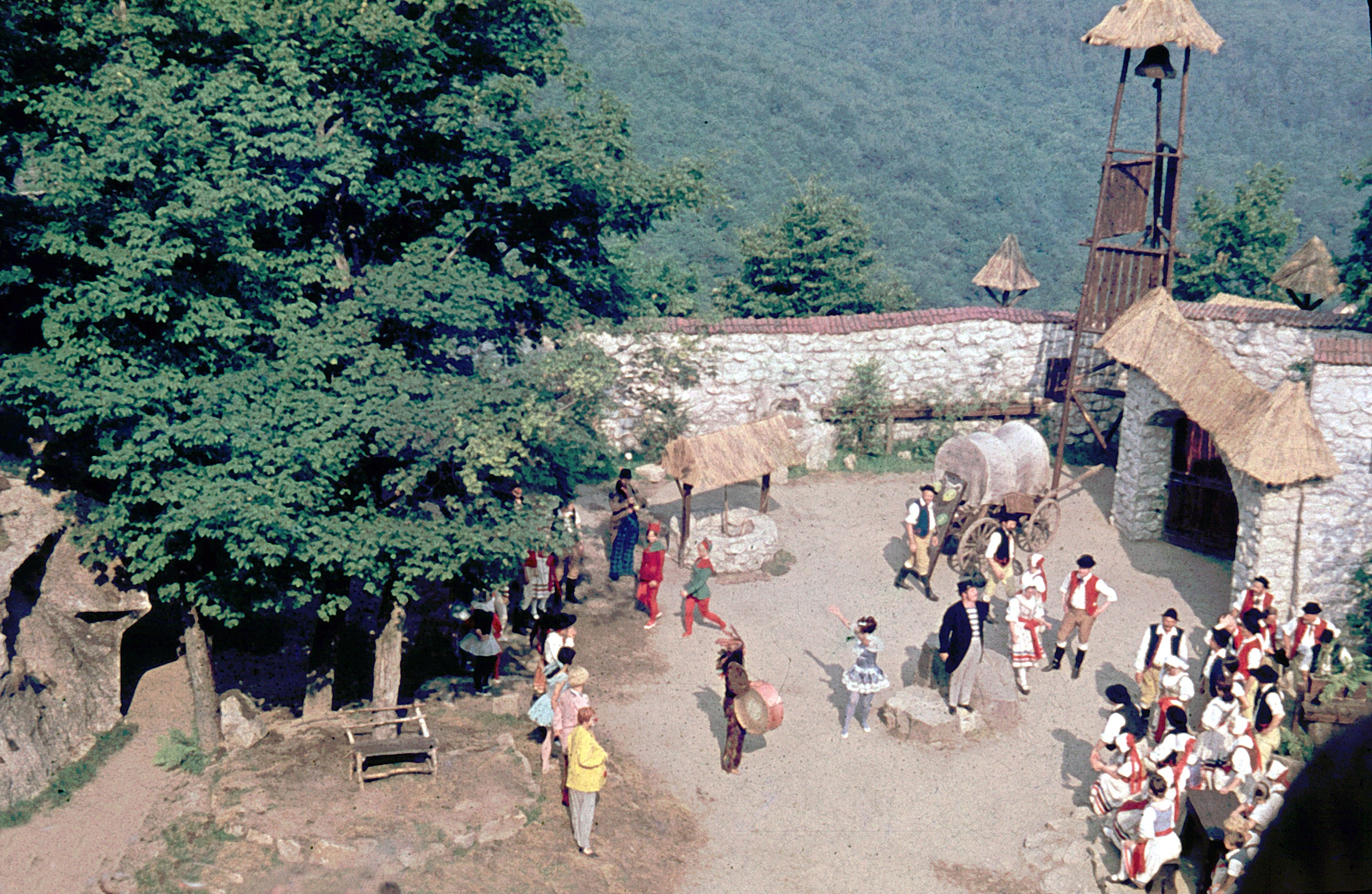 Thale, mountain theater, performance of "The Bartered Bride